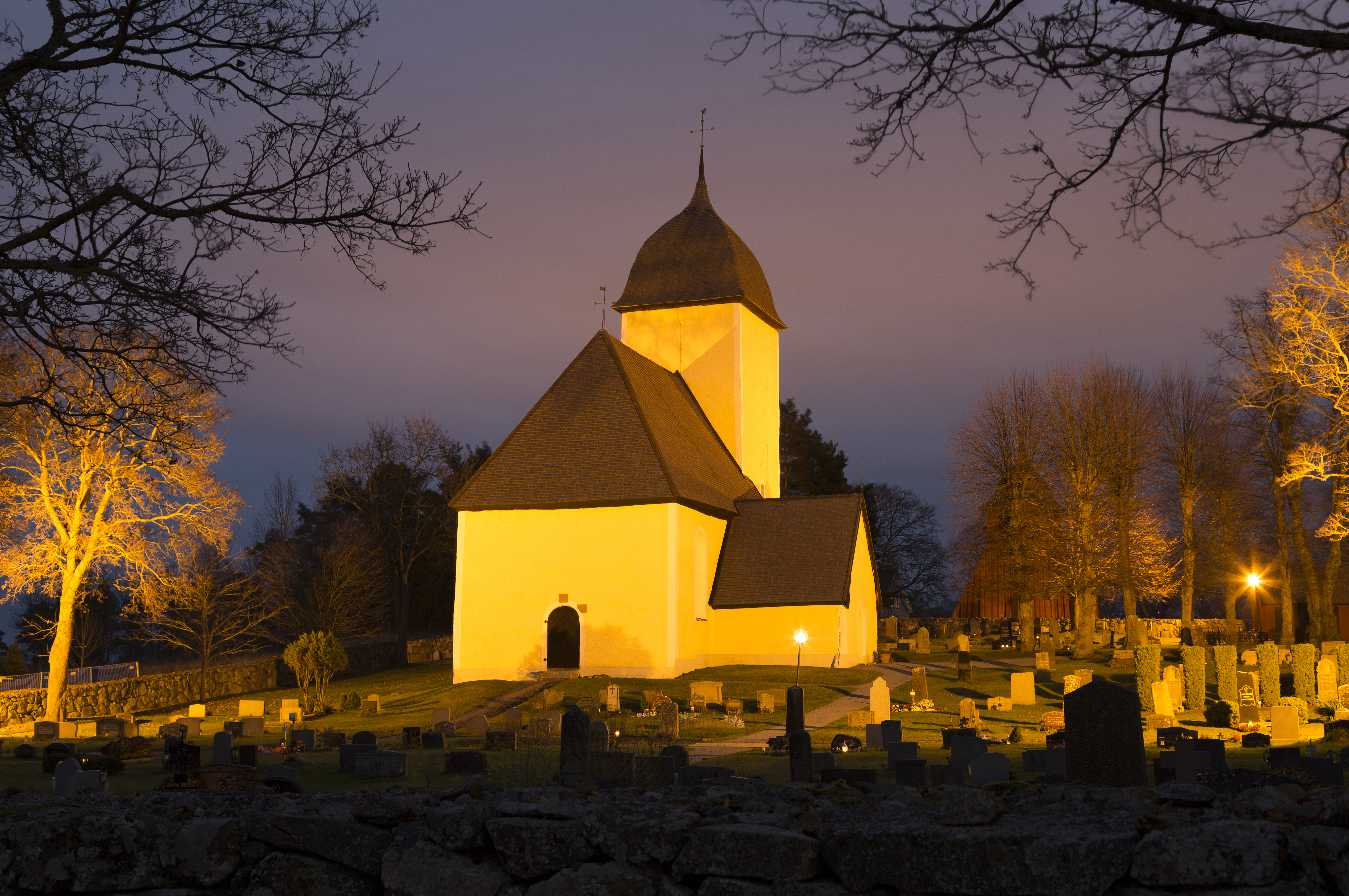 Husby Ärlinghundra Church in Märsta North of Stockholm